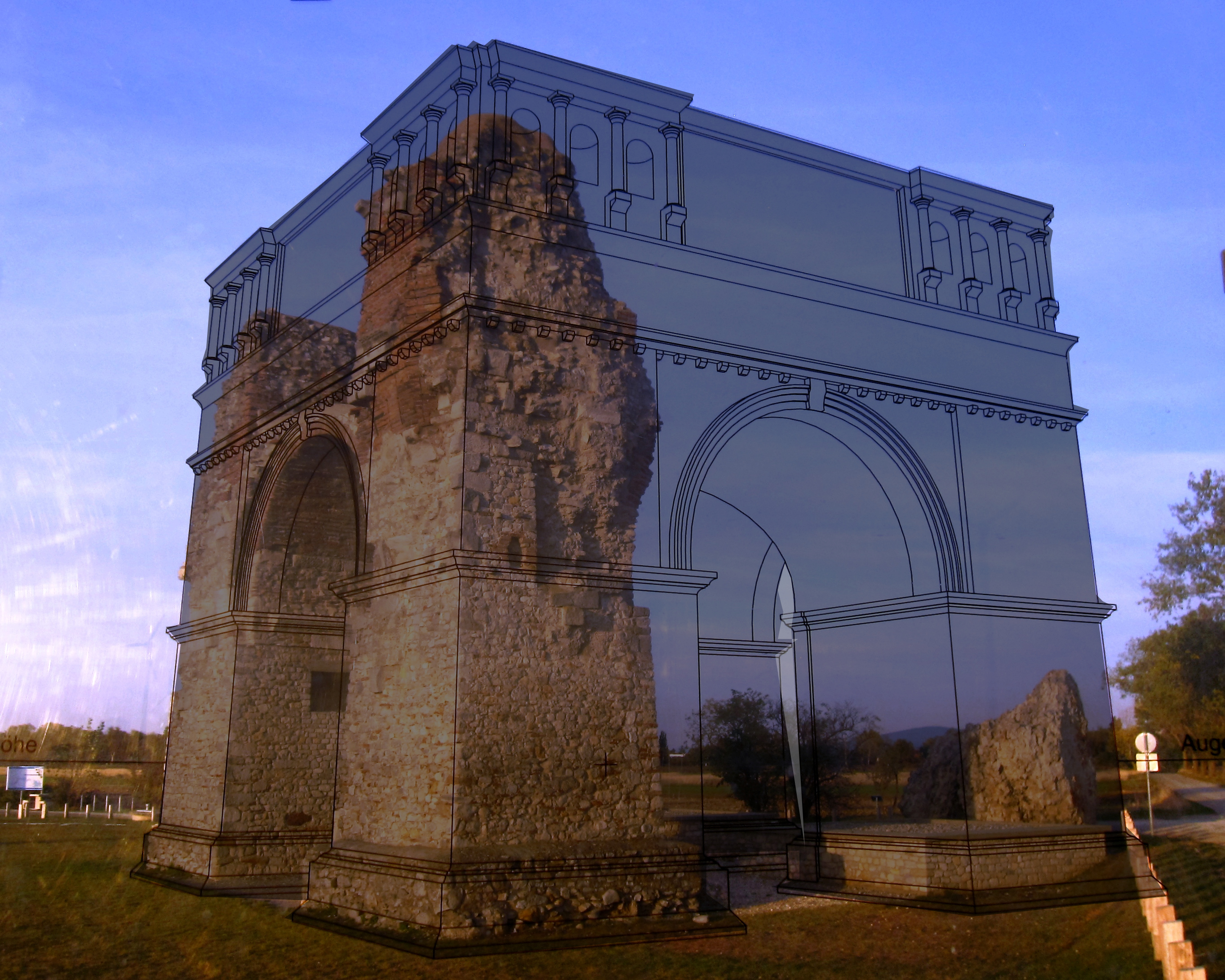 Roman Heidentor (Heathens Gate) in Carnuntum, Lower Austria.